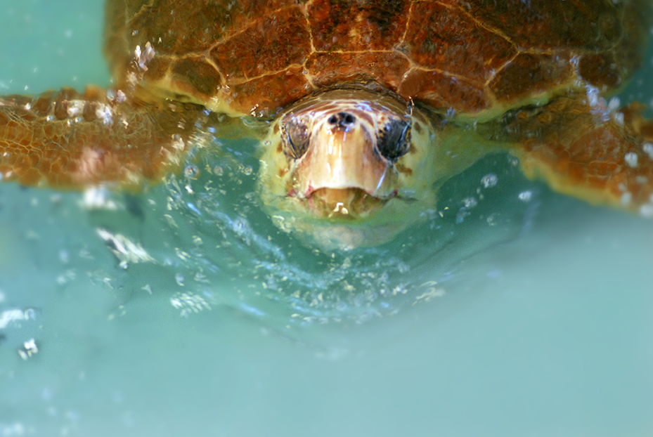 Hilda, a Loggerhead sea turtle, was rehabilitated and released back into the ocean since this photo at the Marine Science Center in Ponce Inlet, Florida The Marine Science Center does what it can to save and rehabilitate injured or ill marine life.